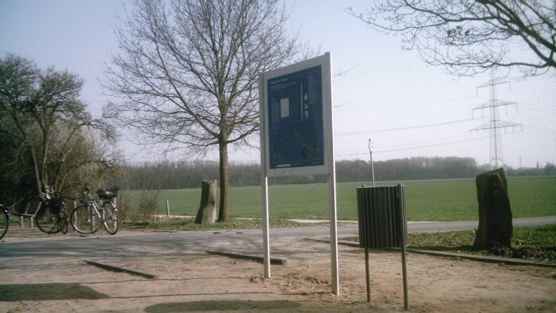 Bicycle trail rest area in Donk, Viersen, Germany.